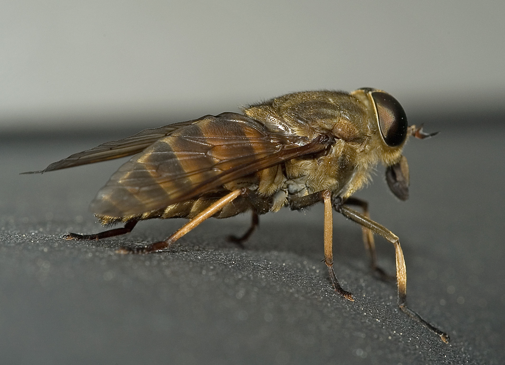 Please report references to kulacgmx.at.